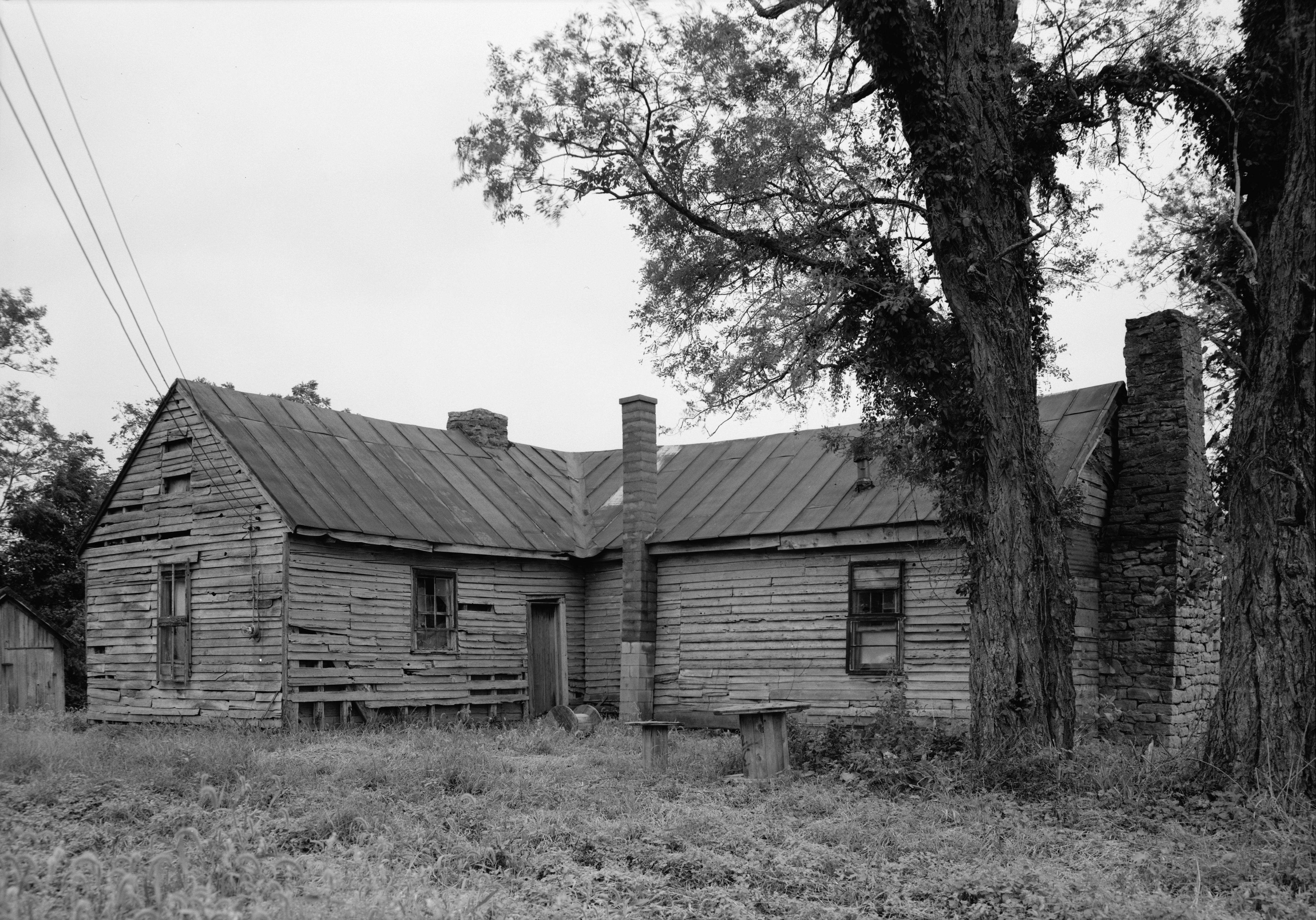 EXTERIOR, NORTHWEST VIEW - General Nathaniel Massie House, Buckeye Station Bluff, Route 52, Manchester, Adams County, OH. Cropped to remove borders.